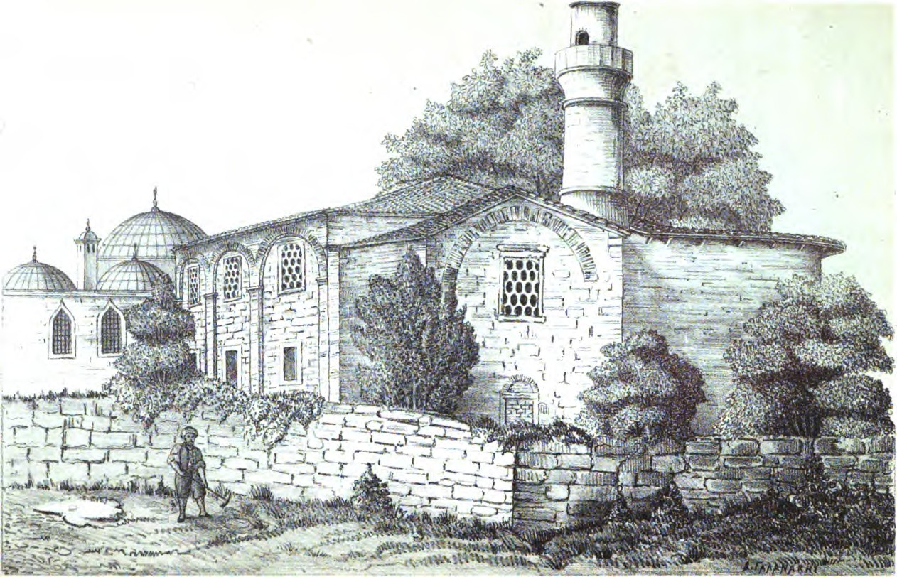 The Odalar Mosque, an unidentified former Byzantine church in Istanbul, Turkey. It is now ruined. From G. Paspates' Byzantinai meletai topographikai (1877) Author: Paspatēs, Alexandros Geōrgiou, 1814-1891. [from old catalog] Subject: Inscriptions, Greek Year: 1877 Possible copyright status: NOT_IN_COPYRIGHT Language: English Digitizing sponsor: Google Book contributor: Oxford University Collection: europeanlibraries